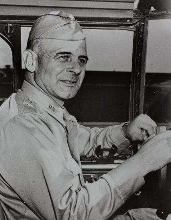 PictionID: 38068922 - Catalog:Array - Title:Array - Filename:AL-84 Album Image _00003.TIF - Images from an Album donated to the Museum by aviation artist John Vanowsky-------------- -------------- --- SOURCE INSTITUTION: San Diego Air and Space Museum Archive